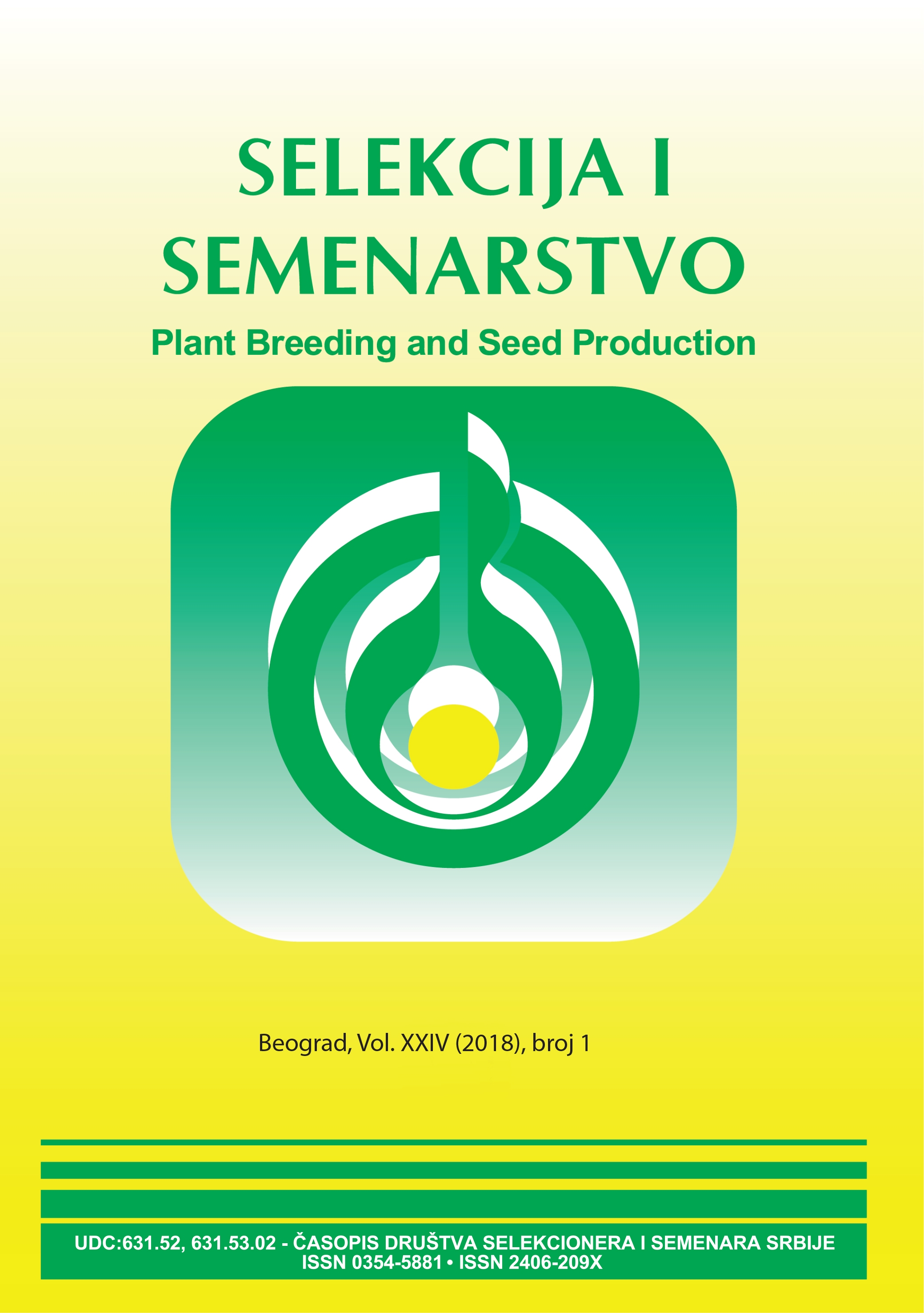 Cover of Serbian scientific journal Selekcija i semenarstvo published by Serbian Association of Plant Breeders & Seed Producers